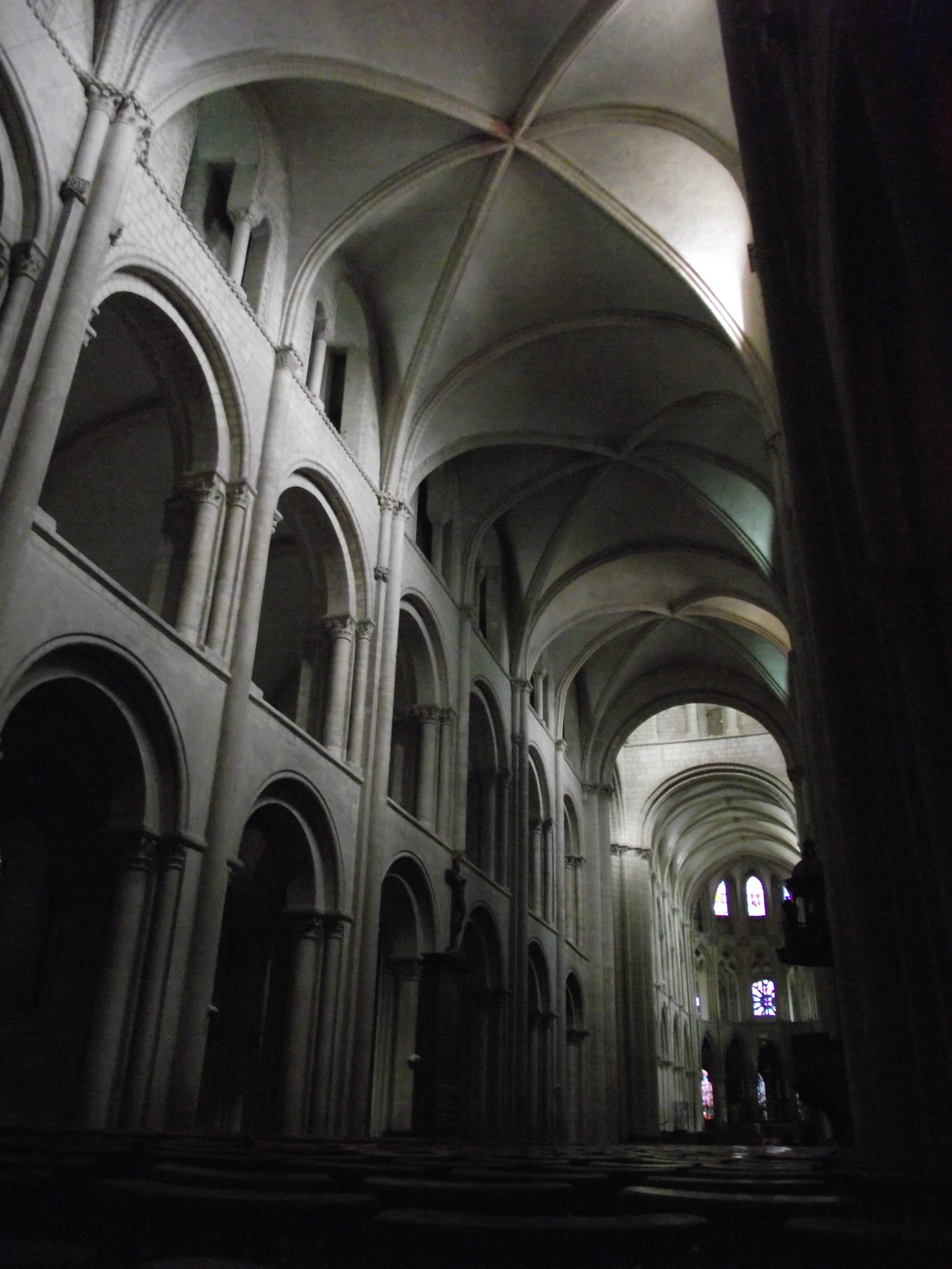 Caen, Saint Stephen's Church, XI-XIII Century